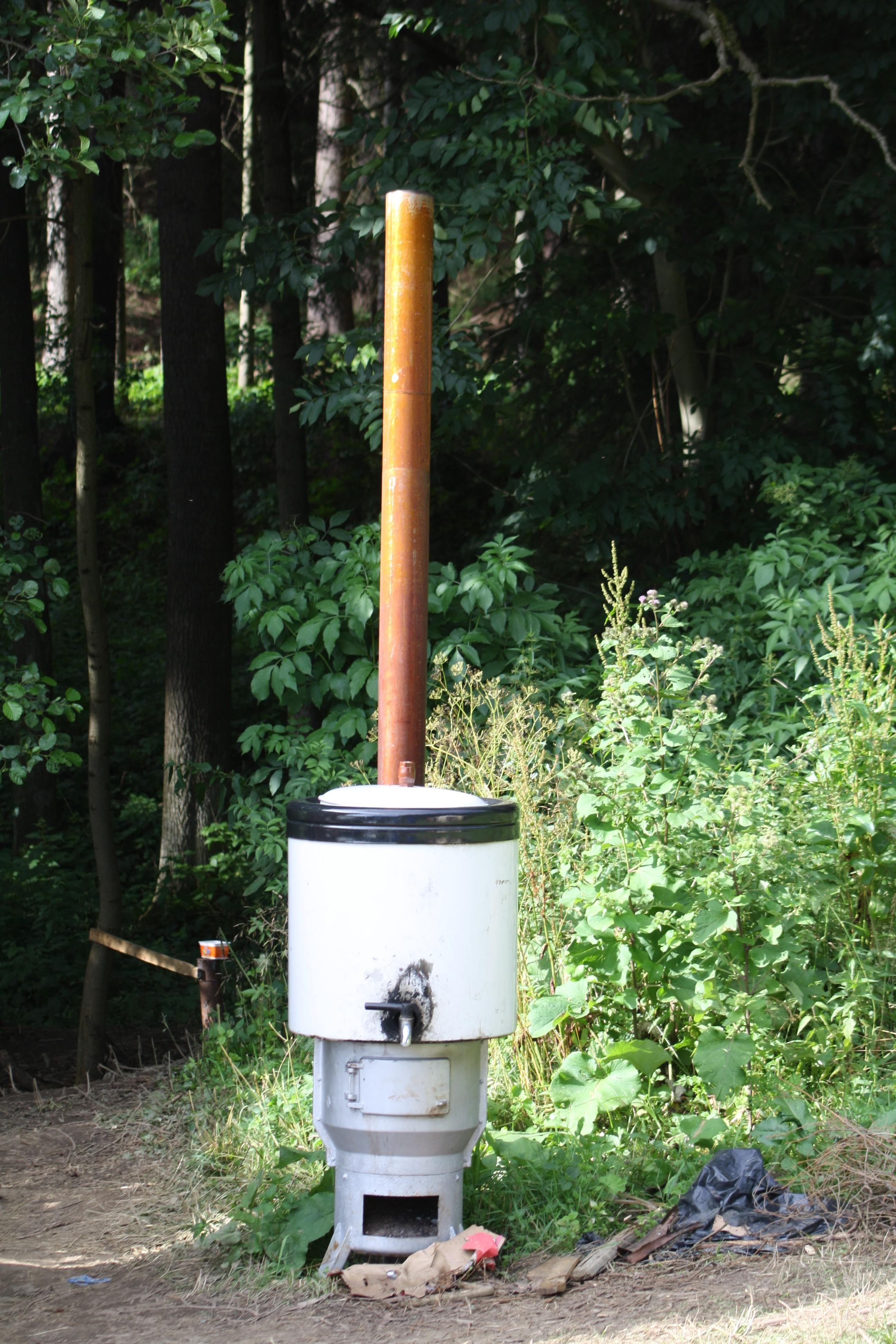 Stove Brutar to heating water.